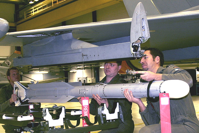 Airmen of the German Airforce (Luftwaffe) mount an IRIS-T missile to a Eurofighter